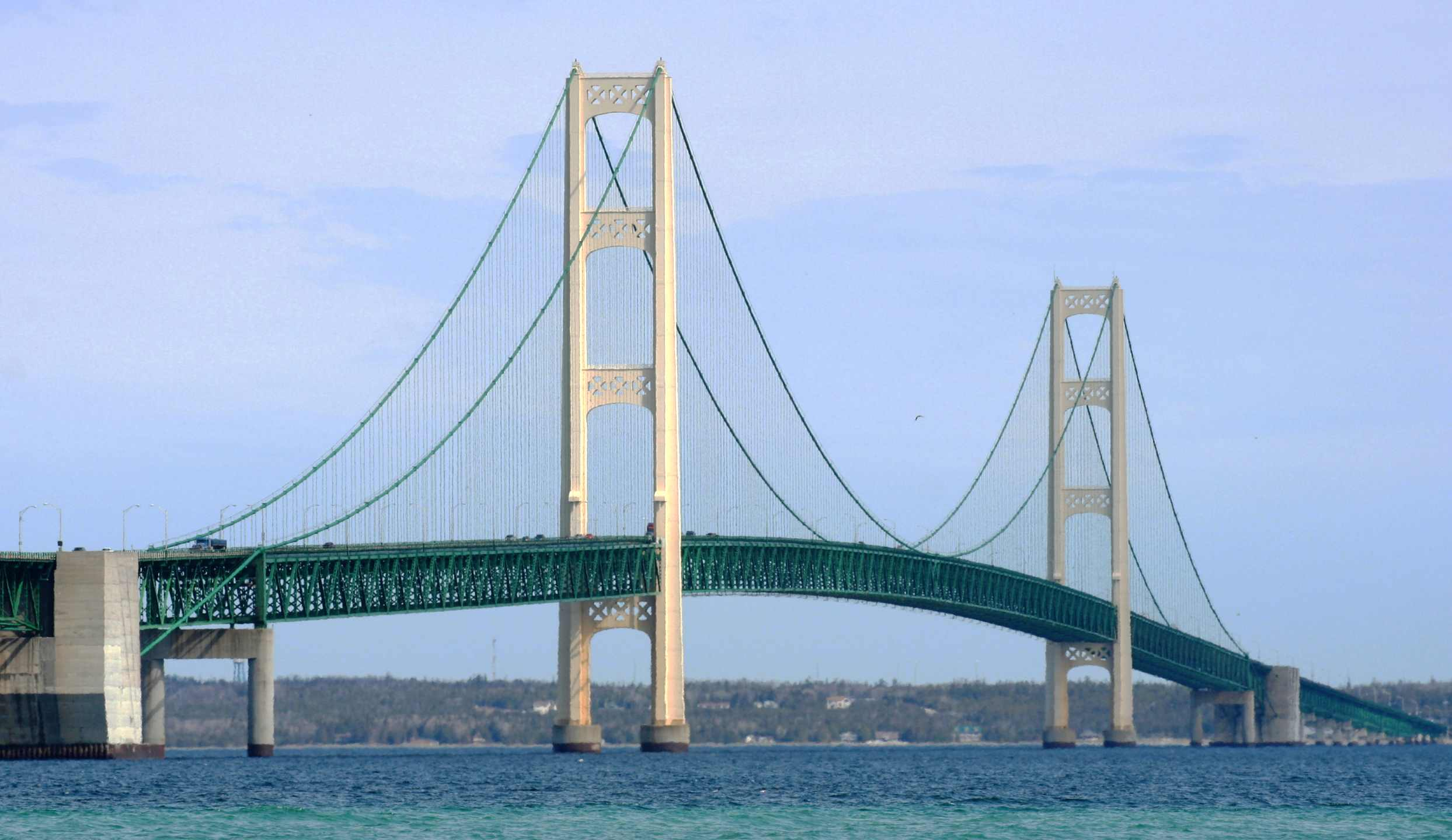 A picture of the Mackinac Bridge. The photo was taken from the southern shore of the Lower Peninsula facing St Ignace. The picture shows the Mackinac Bridge. This photo was taken by the submitter on April 28, 2007.